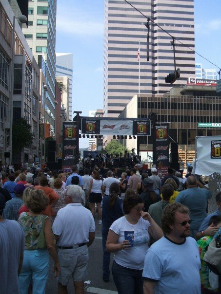 Oktoberfest, Cincinnati, 2006